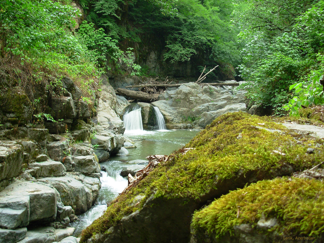 Temperate rainforest and river, Lerik, Azerbaijan